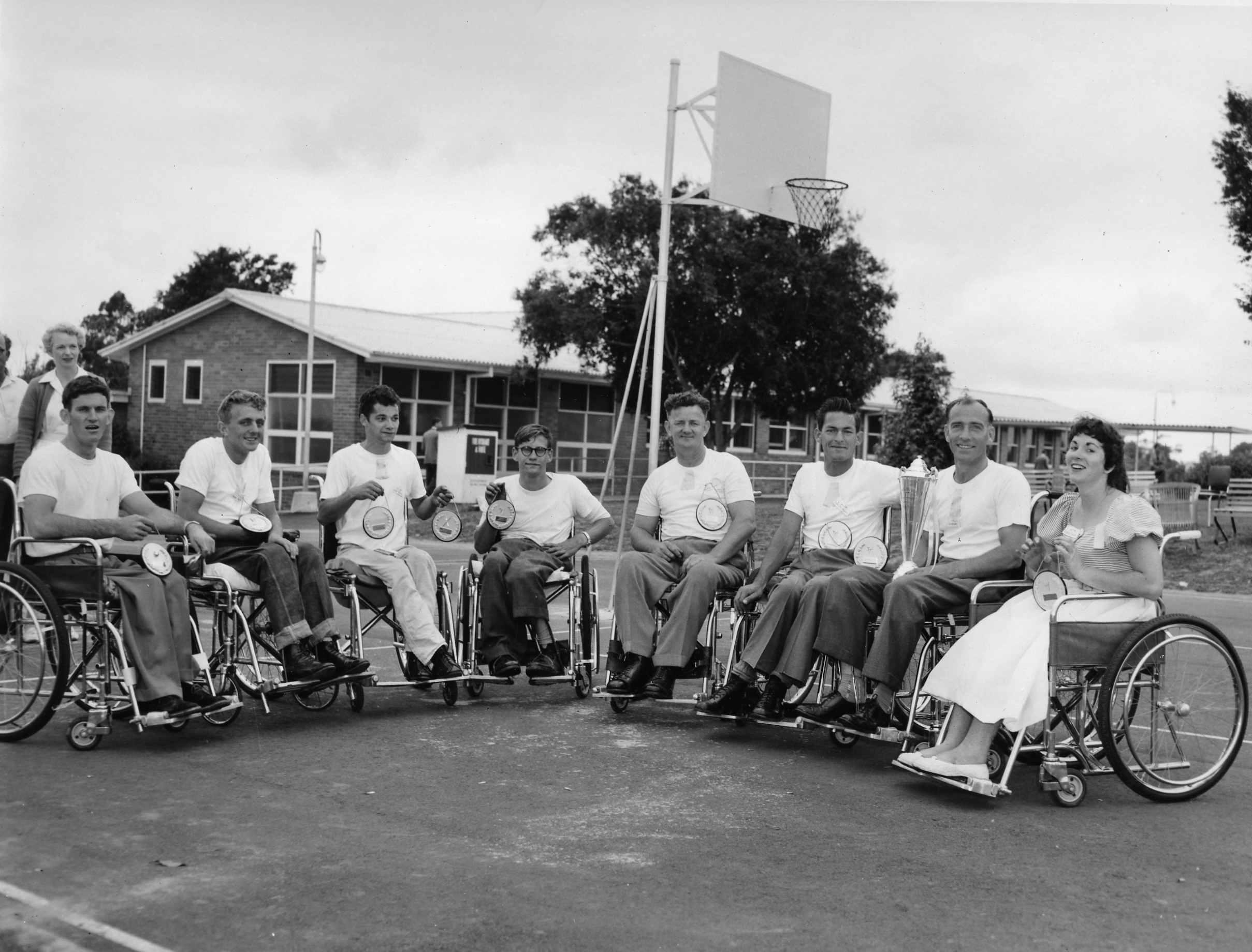 Physiotherapist Eileen Perrottet at back with medallists at the first Sports Day at Mt Wilga Rehabilitation Hospital 1959. Three Australian Paralympians from the first Paralympic Games in 1960 are in the phot - Gary Hooper is far left, next to him is Ross Sutton (Australia's first Paralympic gold medallist) and far right is Daphne Hilton (nee Ceeney), the only Australian female competitor in 1960 and Australia's first female gold medallist.